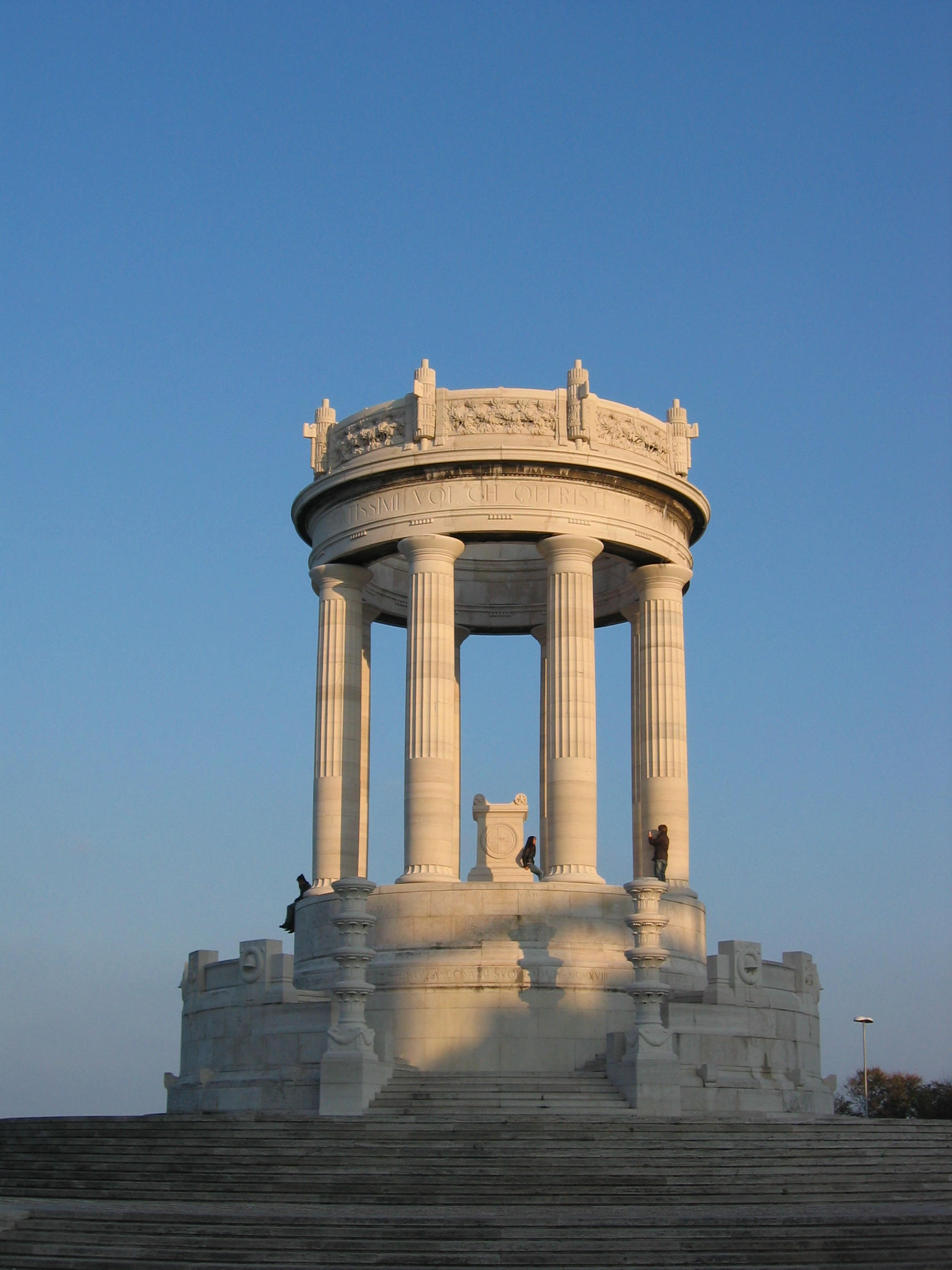 The war memorial for the soldier of Ancona died in all the battles, in Passetto district.